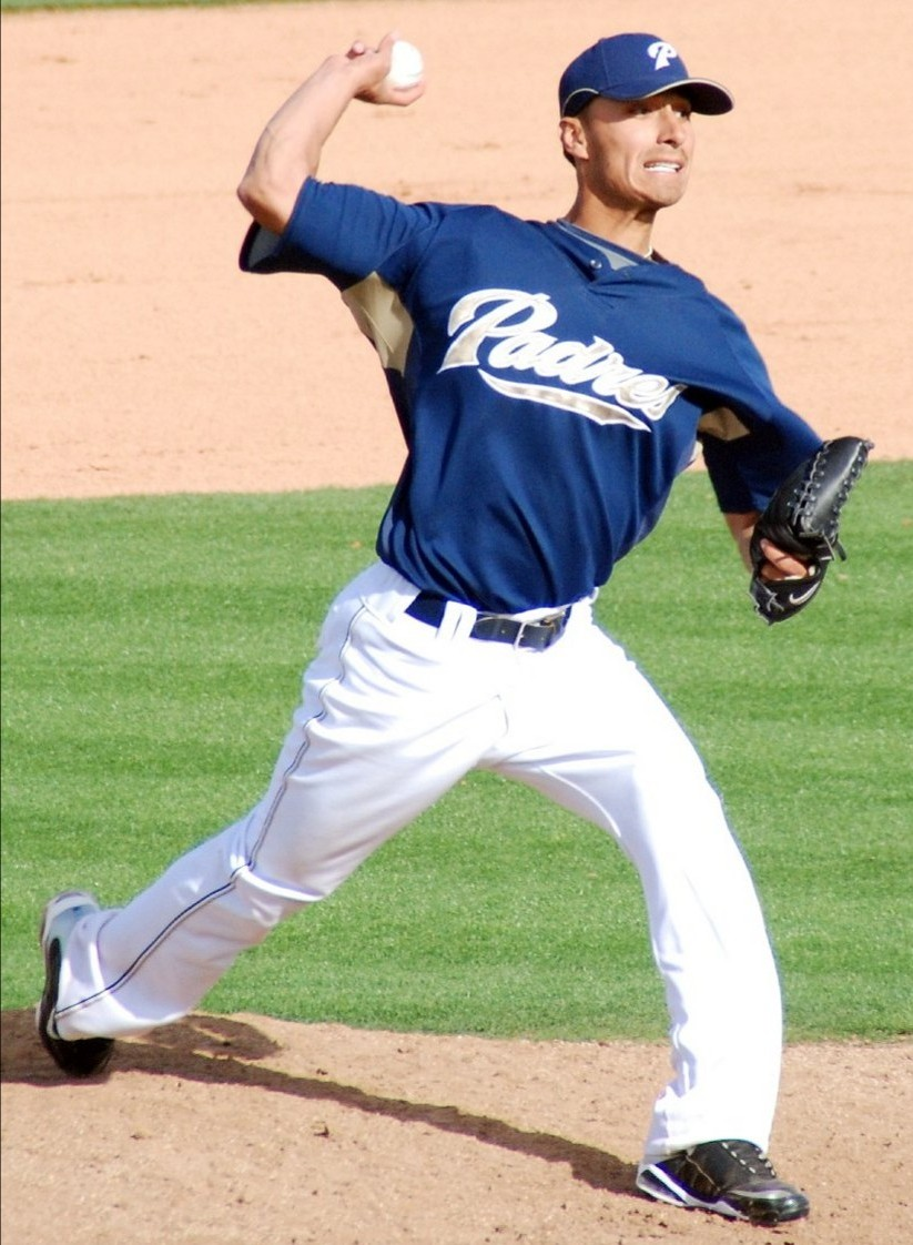 Taken on March 6, 2009